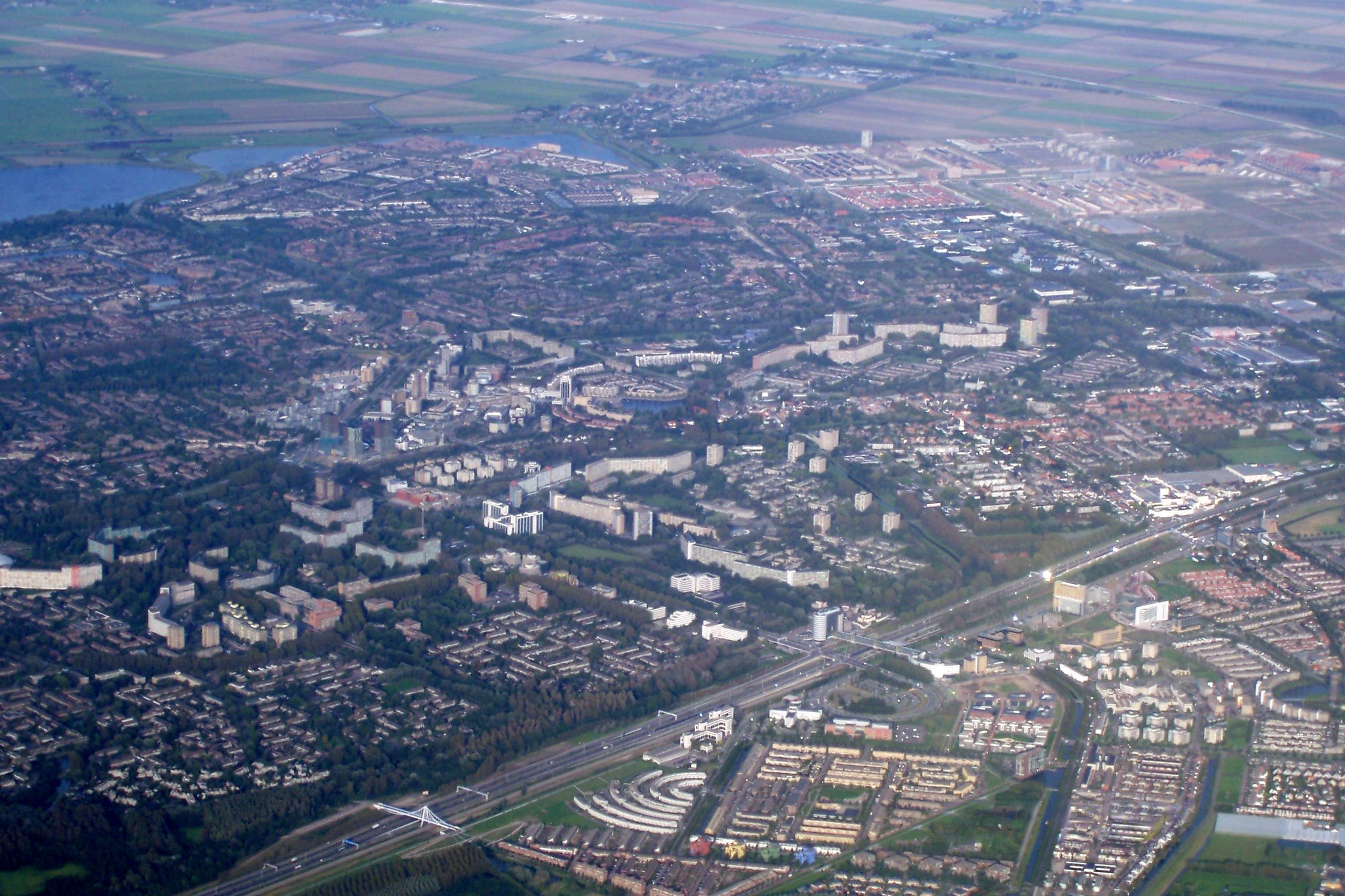 Aerial view of Zoetermeer, South Holland, the Netherlands